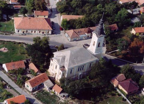 Tass, Hungary, aerialphotography